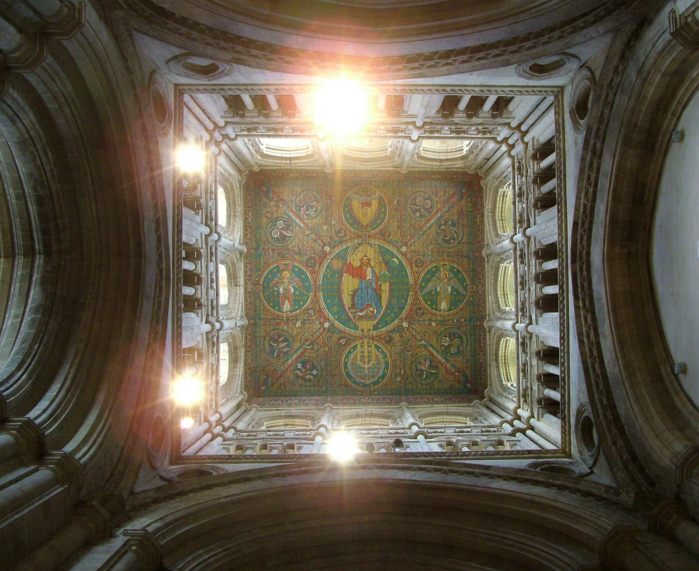 Ely cathedral